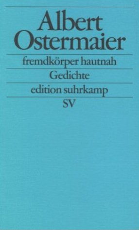 Book cover of "Fremdkoerper hautnah" by Albert Ostermaier